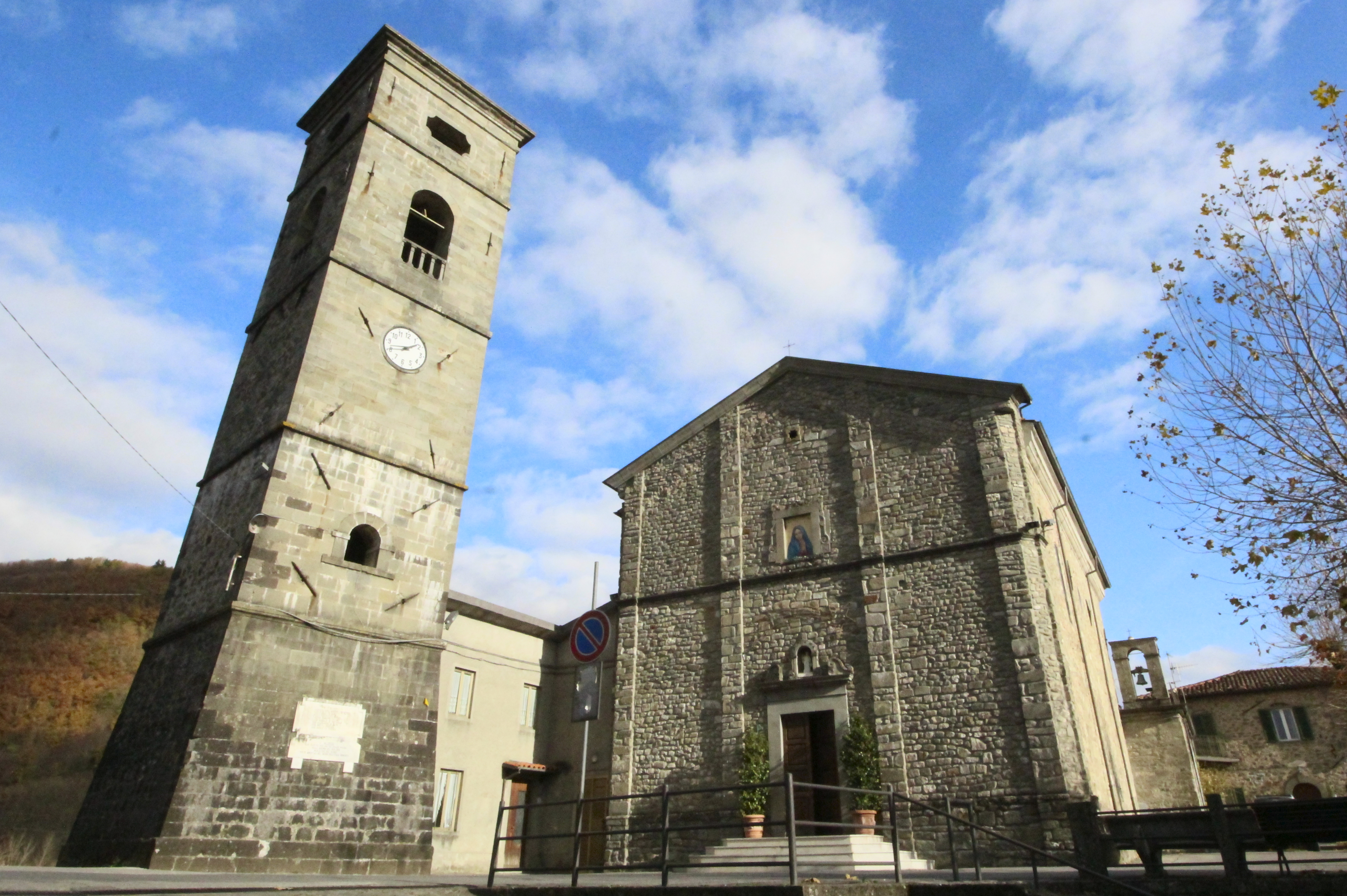 San Pietro, church in Piazza al Serchio, Garfagnana, Province of Lucca, Tuscany, Italy